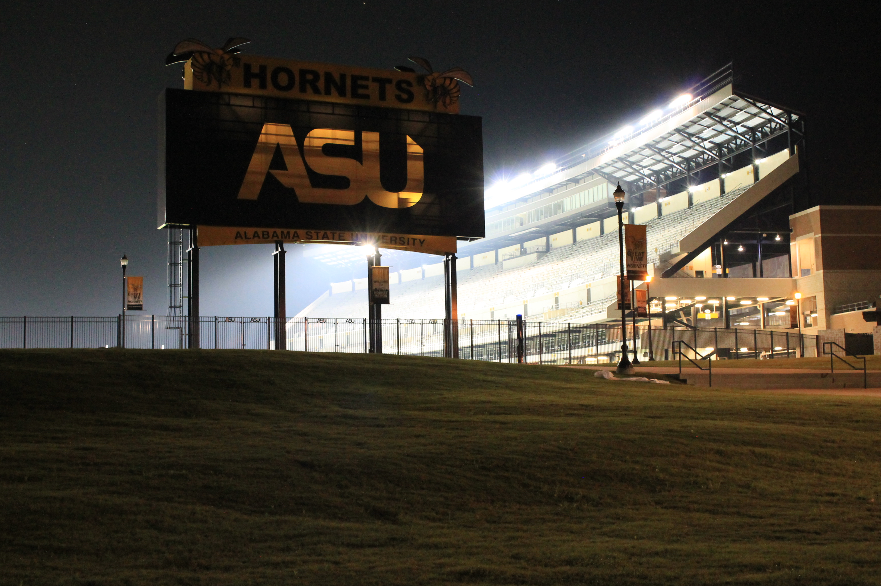 The Alabama State University Football Stadium was officially opened in November 2012